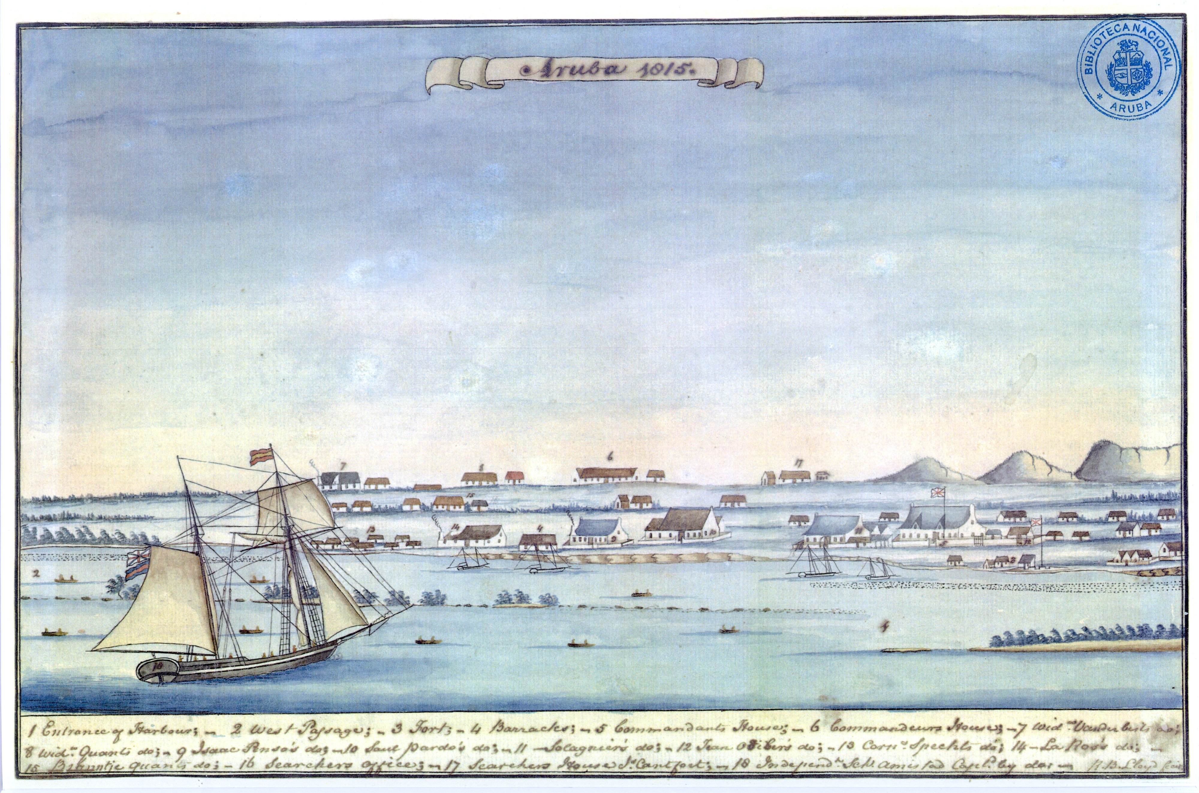 R. B. Lloyd. Aruba 1815